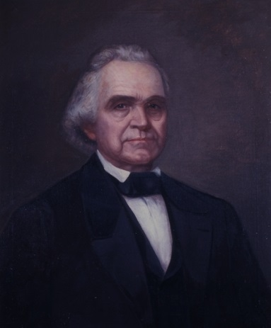 Portrait of Mississippi Governor